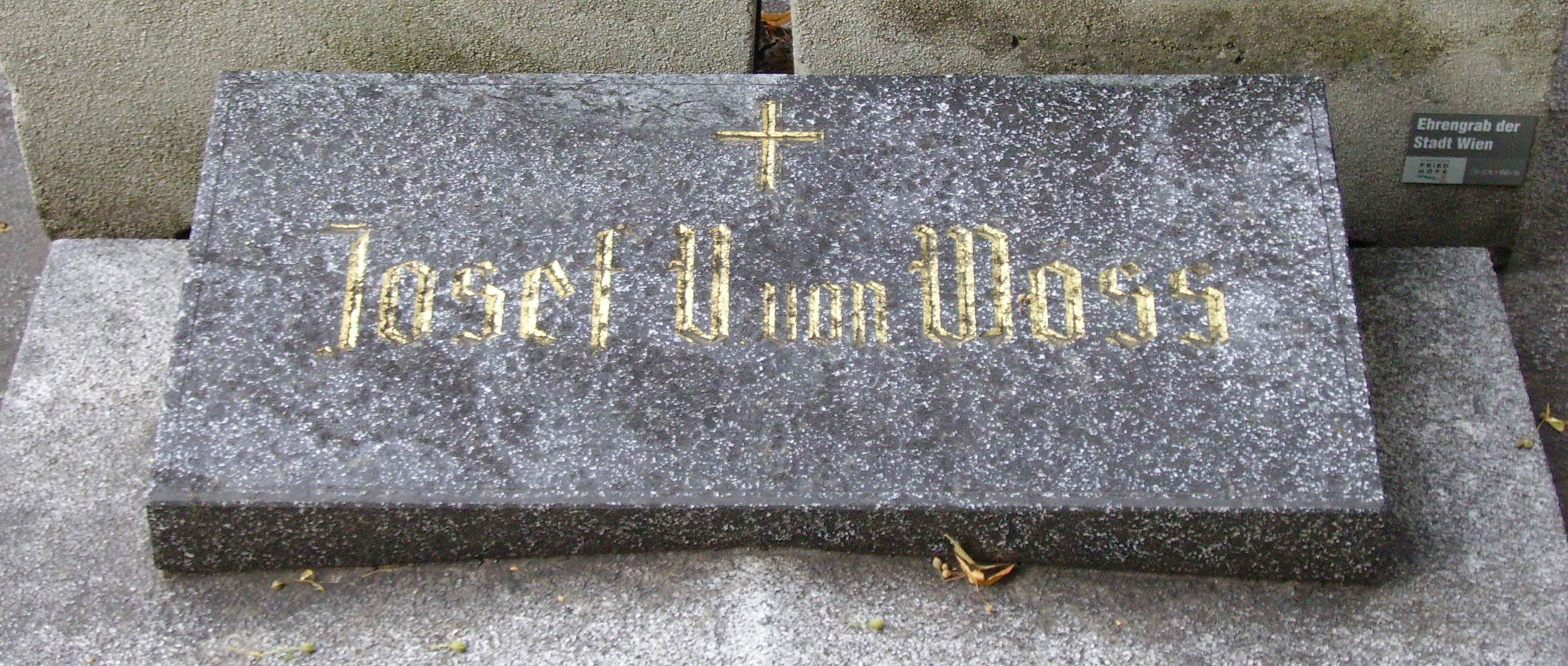 Josef Venantius von Wöss (1863-1943) Grave at the cemetery Hernals, Vienna, detailed view